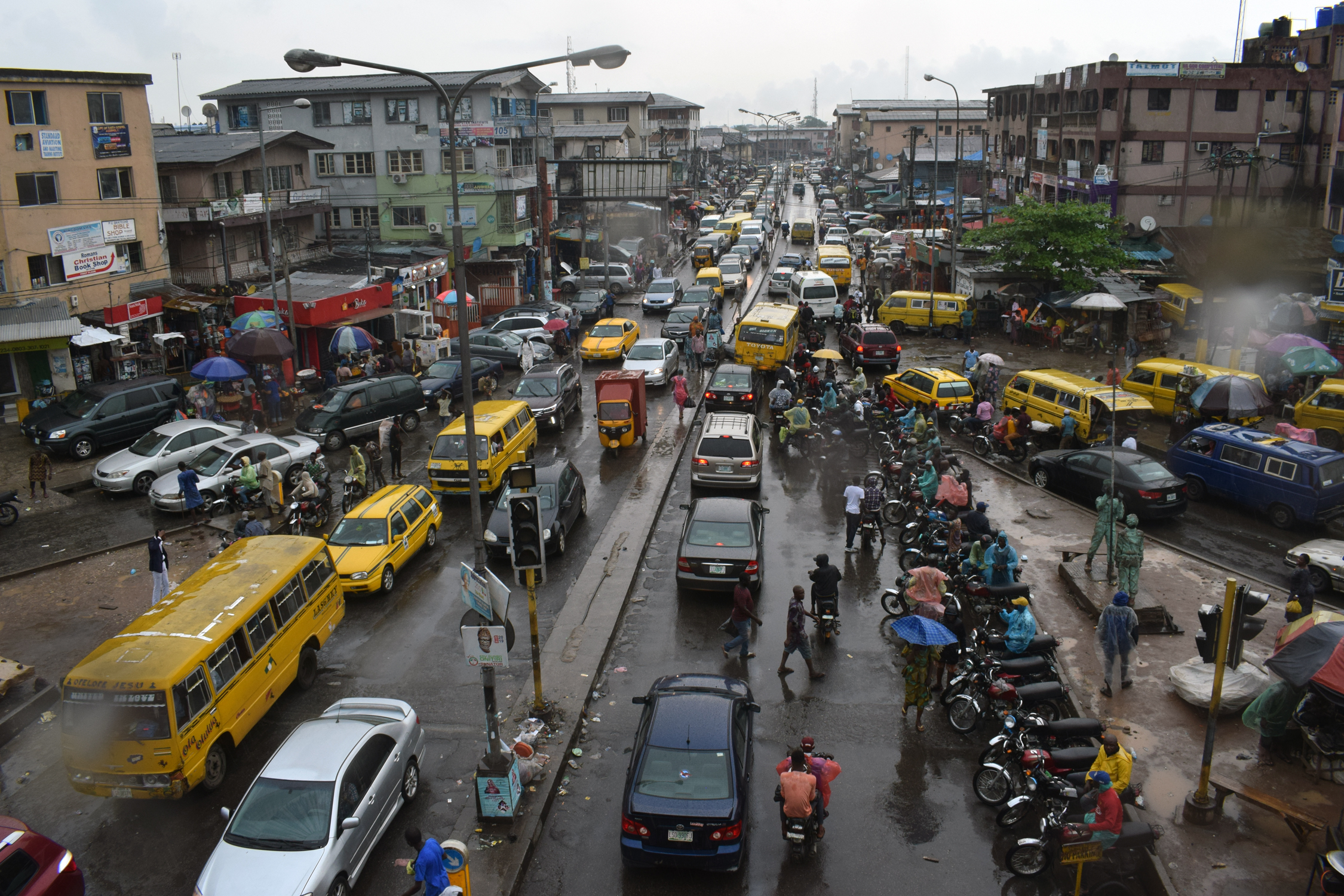 East view of Ojuelegba bridge, Yaba, Lagos-Nigeria